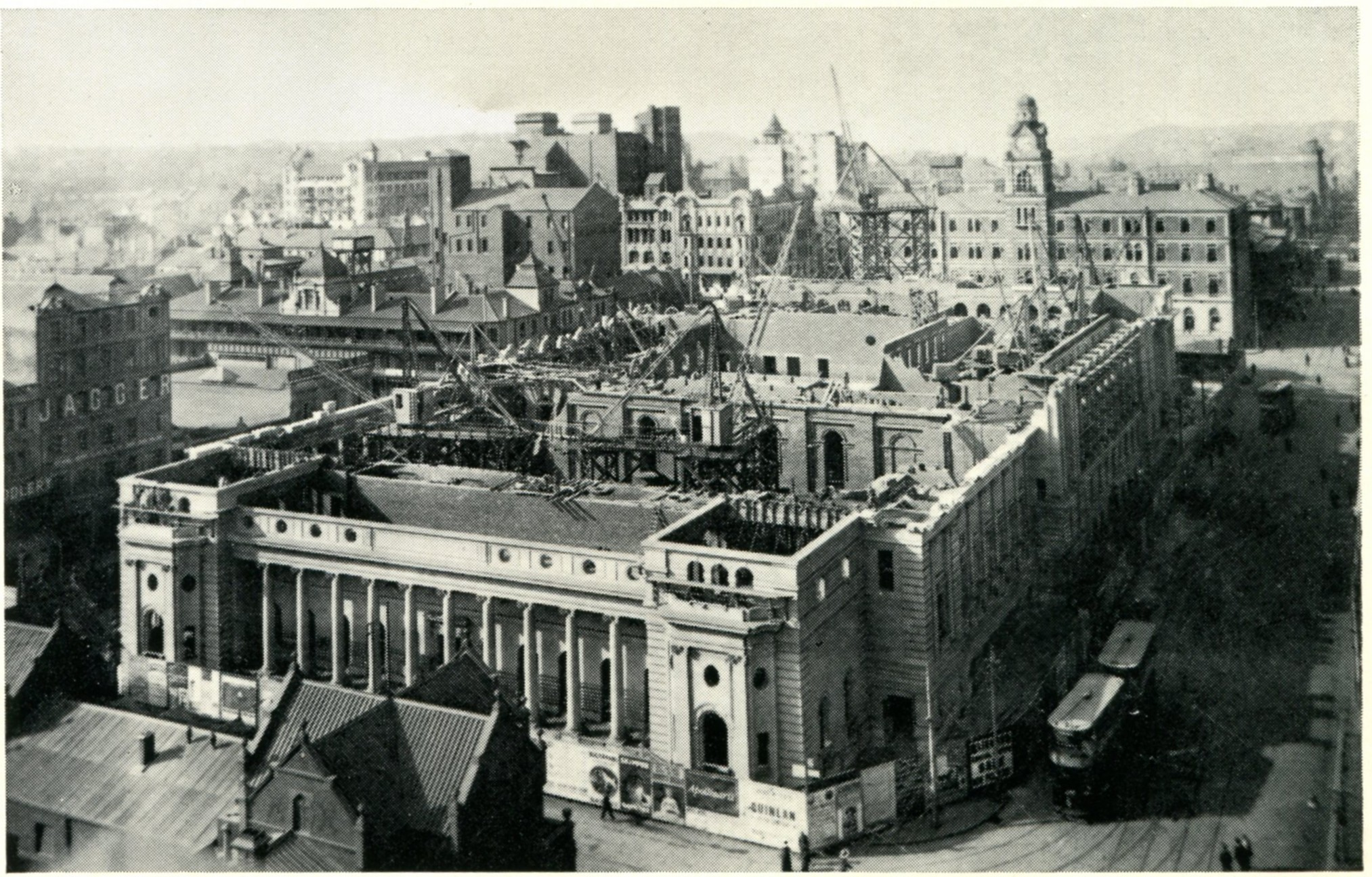 The Johannesburg City Hall while still under construction. This is part of the JHF works release to be used under the Joburgpedia project and other wikimedia projects.